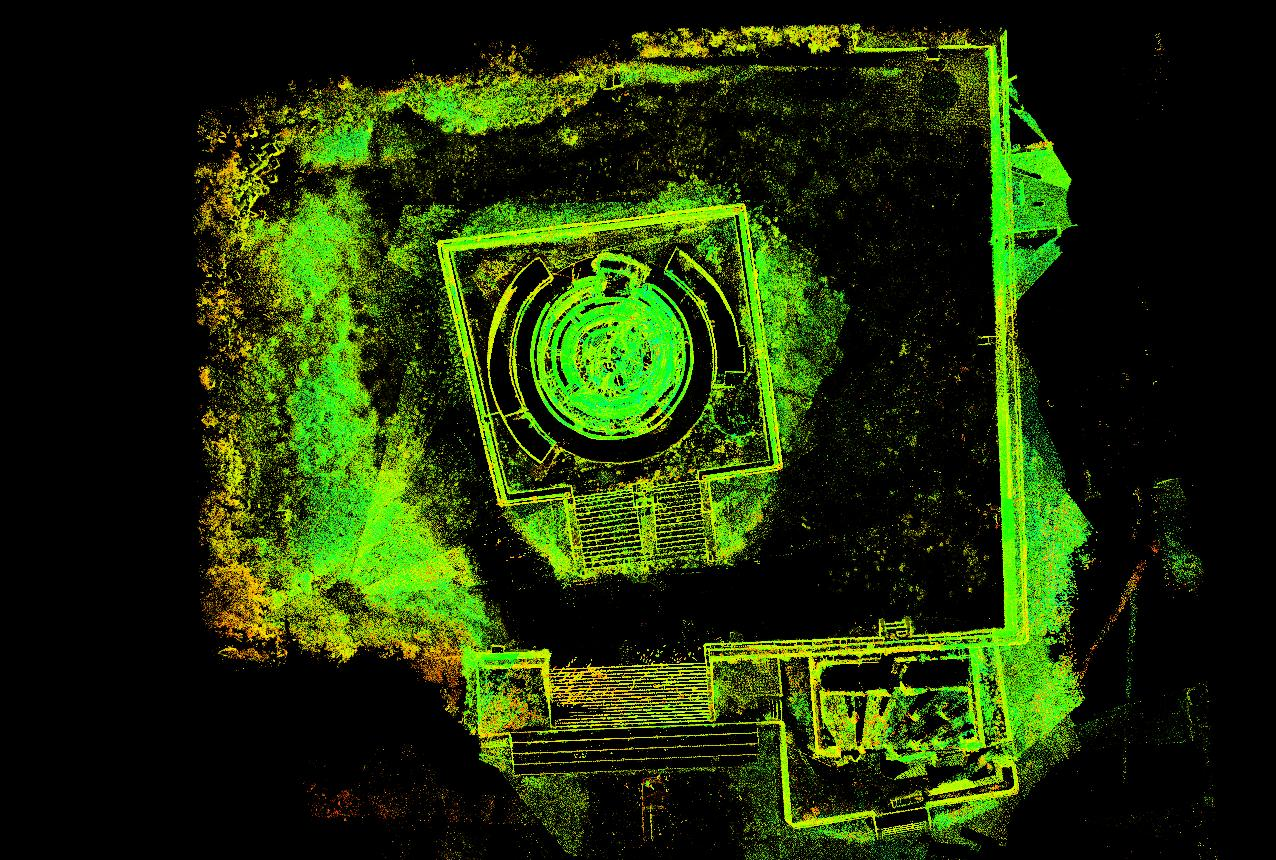 Composite 3D laser scan image of El Caracol from above. El Caracol is a round stone structure with a partially ruined domed roof that originally had a cylindrical shape; it was named Caracol (Snail) due to its internal spine that climbs up in a spiral. Narrow windows cut into the outer walls seem to have been designed in order to observe the irregular movements of Venus, which was considered to be the sun's twin and held great significance for the Maya, particularly in decisions pertaining to war. The staircase at the front of the Caracol faces 27.5 degrees north of west, perfectly in line with the northern positional extreme of Venus and producing alignments at the building's northeast and southeast corners that track both the summer and winter solstices. The Caracol is one of the oldest standing observatories in the Americas, and highlights the great importance that astrological phenomena held for the people of Chichen Itza.